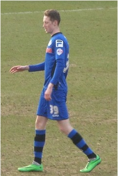 Joe Bunney with Rochdale in 2015.